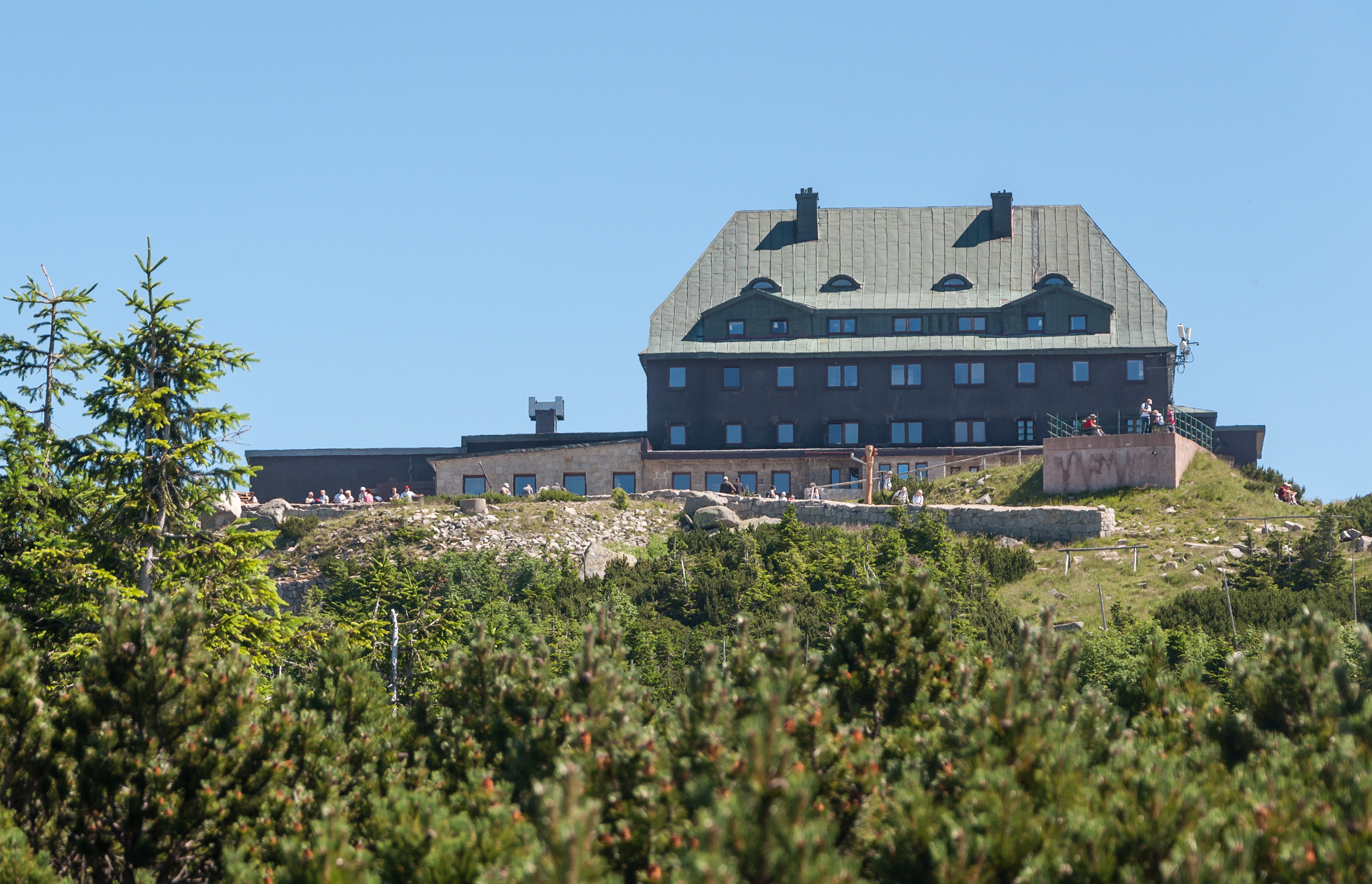 Mountain hut on Szrenica